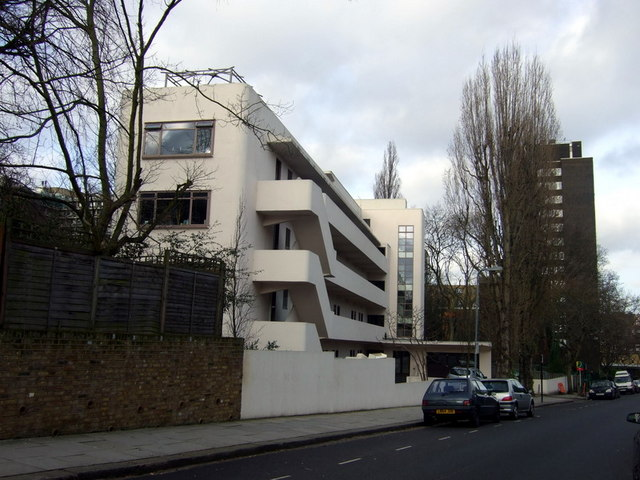 Lawn Road and the Isokon building Another view of the Lawn Road Flats, or Isokon building (named after the design company formed to construct them). The building is Grade 1 Listed.